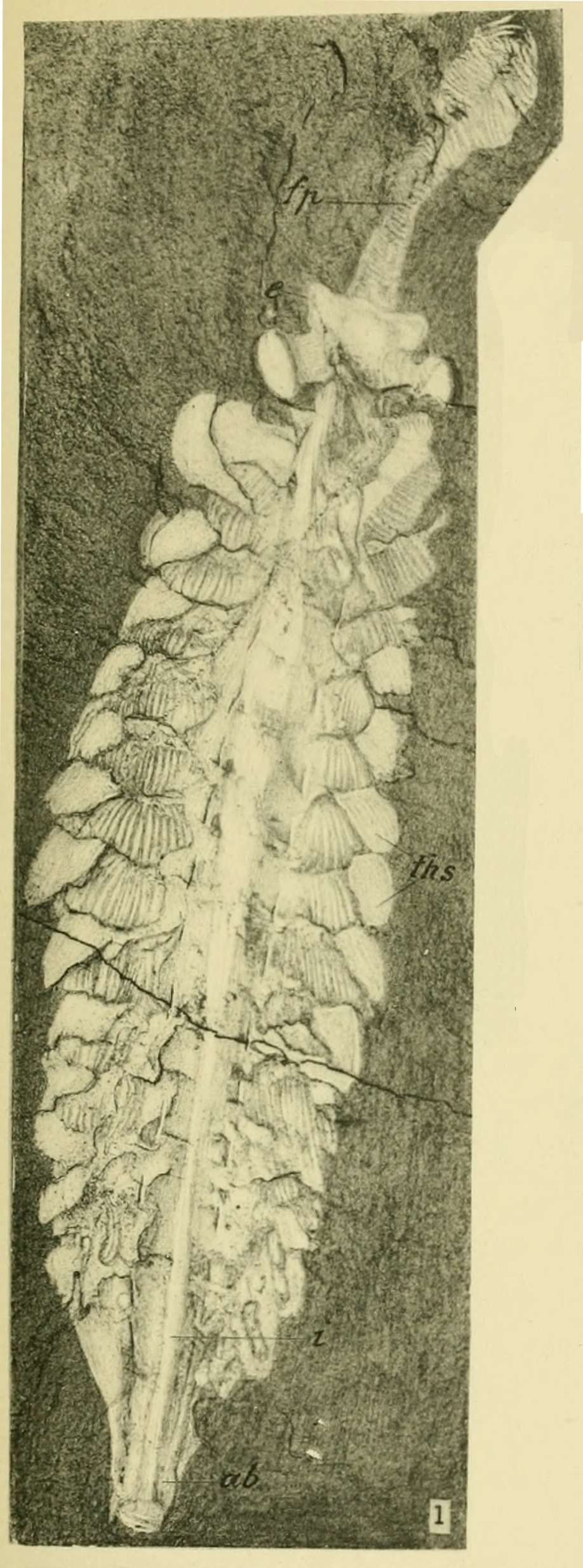 Opabinia regalis Walcott, 1912 Dorsal view of a male specimen, flattened in the shale, showing fp = frontal appendage, e = eye, ths = thoracic somites, i = intestine, ab = abdominal segment. U. S. National Museum, Catalogue No. 57684.